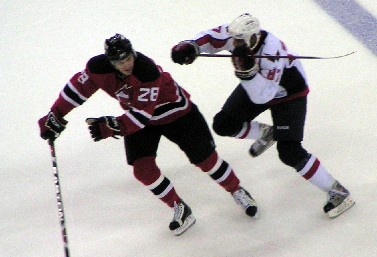 Anssi Salmela (New Jersey Devils) blocks Donald Brasheer (Washington Capitals)